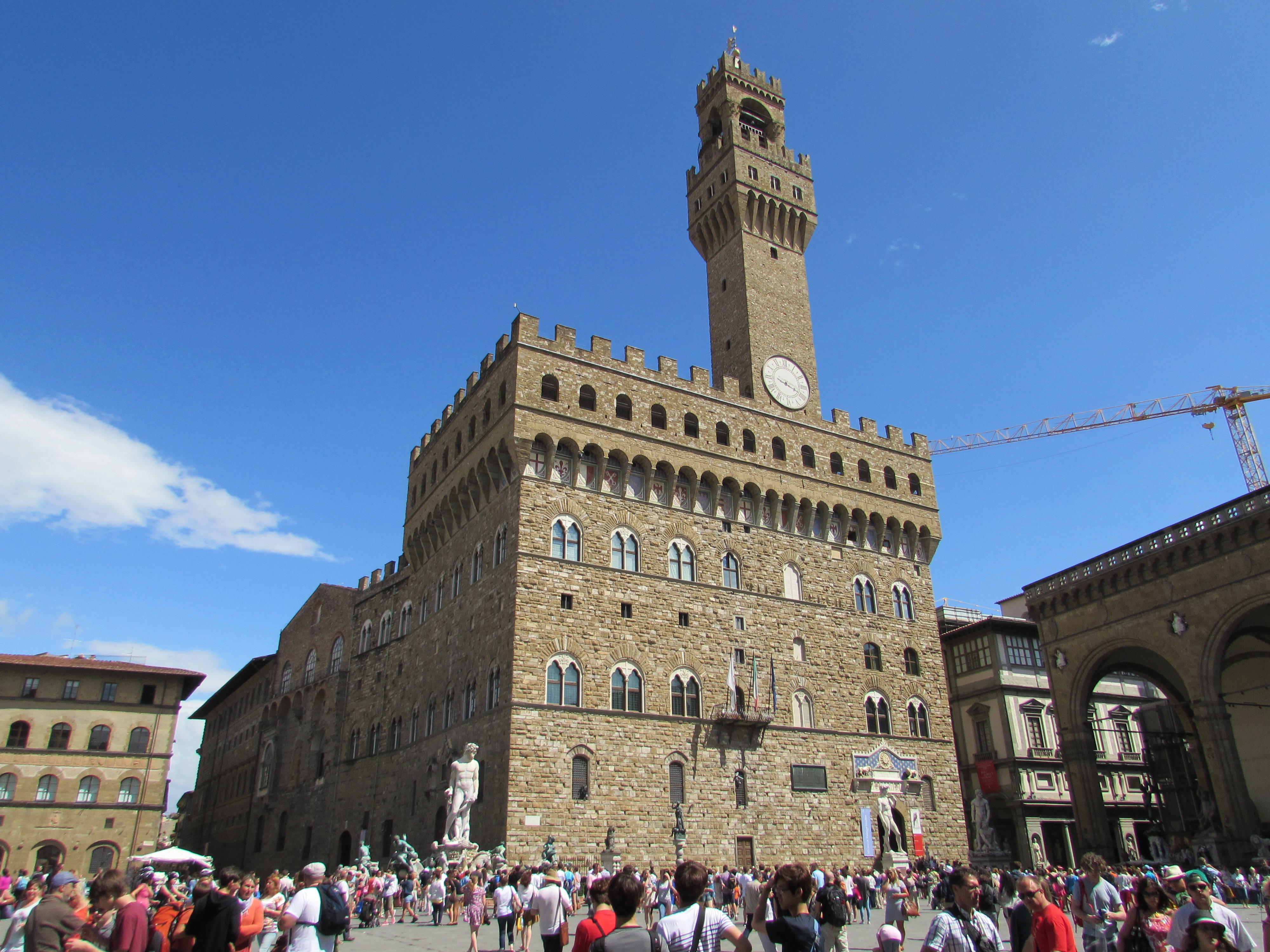 Piazza della Signoria, Florence, Italy